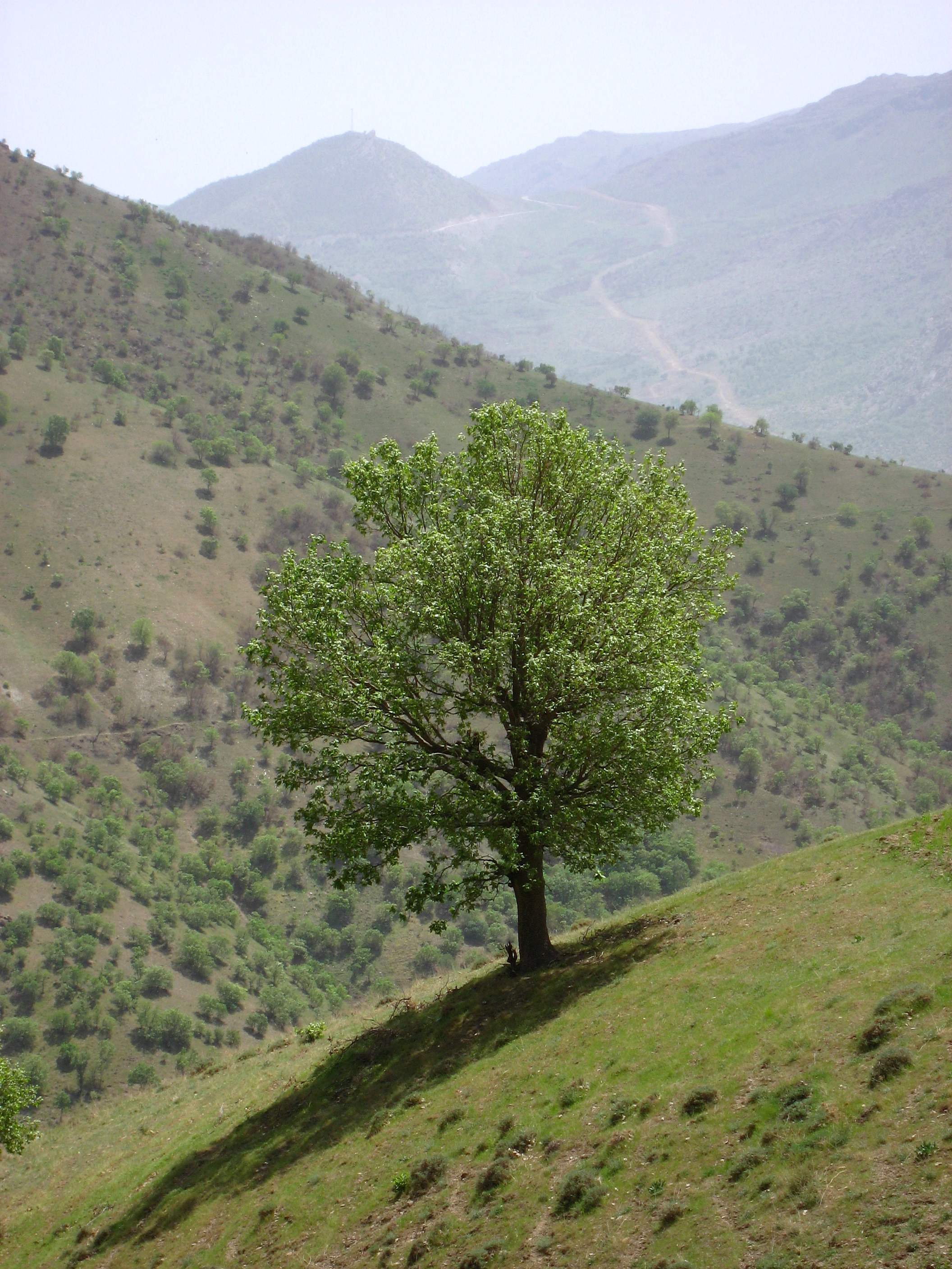 Oak tree in Zagros mountain range, Eastern Kurdistan, near Merîwan